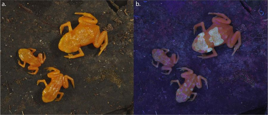 Development of fluorescence in Brachycephalus ephippium. Three live individuals of B. ephippium share the same skin colour (a: natural lighting) but present different levels of fluorescence (b; UV illumination using two SANKYO lamps λexcitation = 315–400 nm, no filter), corresponding to the extent of dermal ossification. The smallest individual (juvenile) does not present any fluorescent pattern; the larger juvenile presents several fluorescent points on its back and head; the adult presents the complete pattern, with more obvious fluorescence of the head and back. Photographs taken by S.G. and C.J.